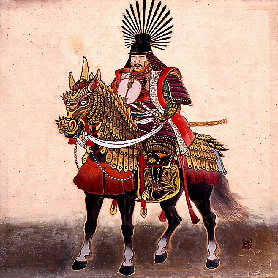 Toyotomi Hideyoshi on his horse and his unique helmet